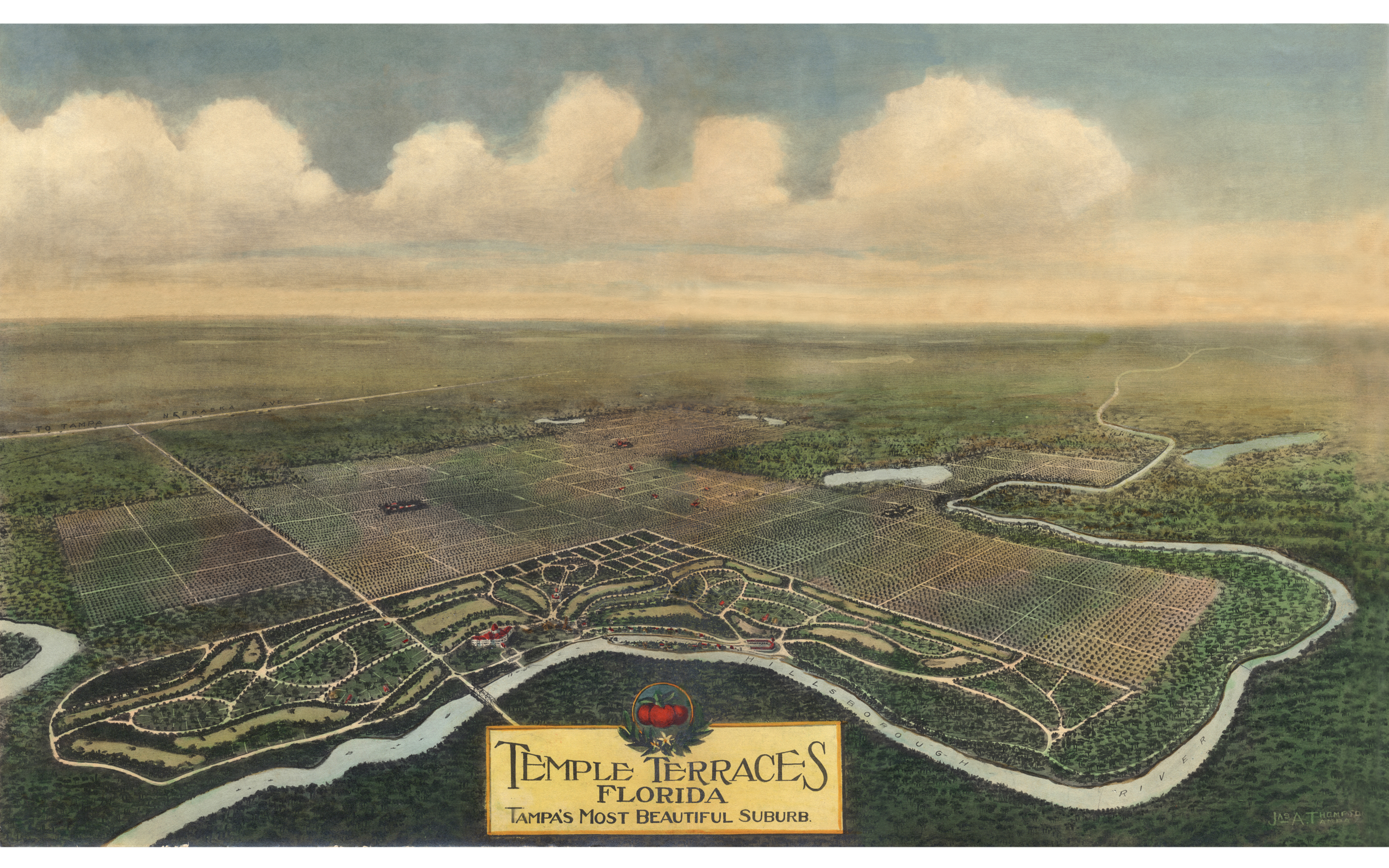 1922 Temple Terrace Master Plan